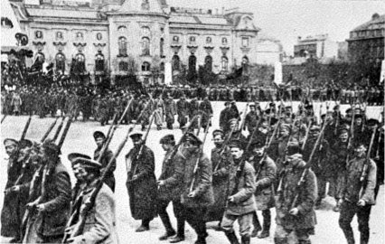 The Army of the Latvian SSR parades on 1st of May 1919. In the Background: the Museum of Art.